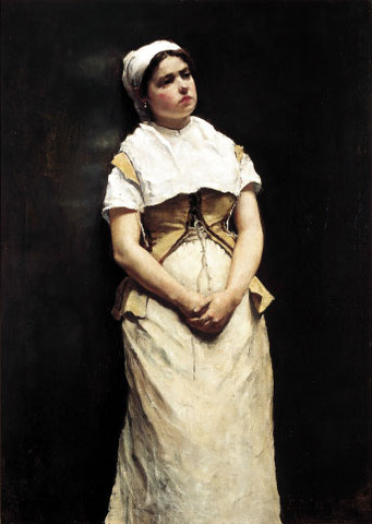 "Flemish Girl". Singer Museum, Laren, the Netherlands